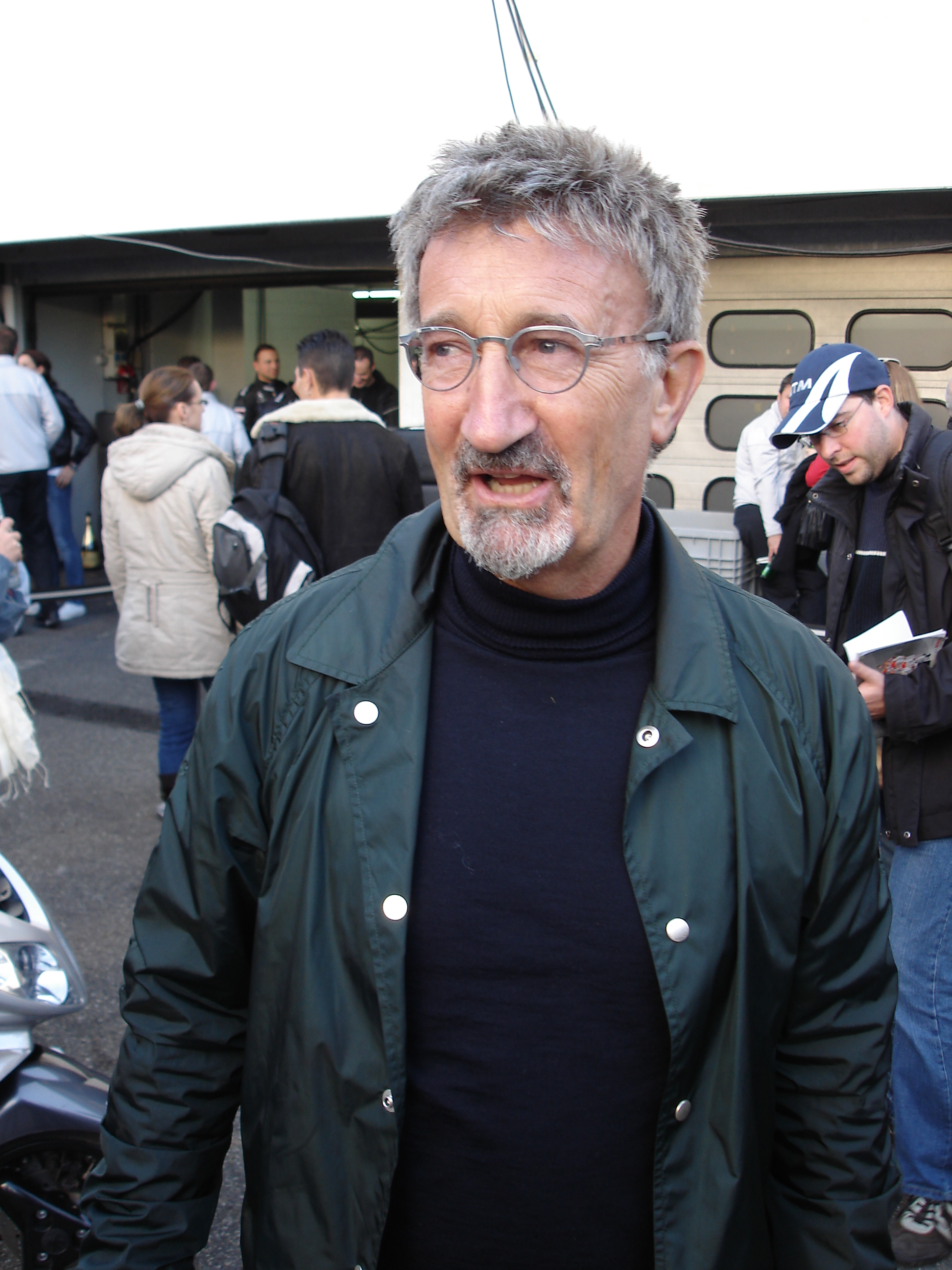 Eddie Jordan: the photo was taken during 2009's second DTM race weekend at Hockenheim